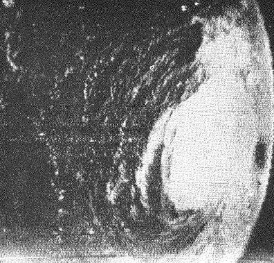 Hurricane Debbie of 1961 on September 10th.